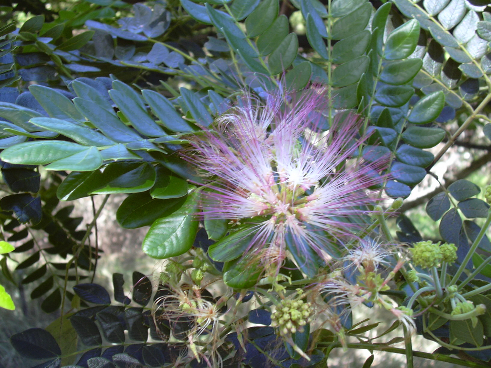 Samanea saman (flower). Location: Maui, Spreckelsville